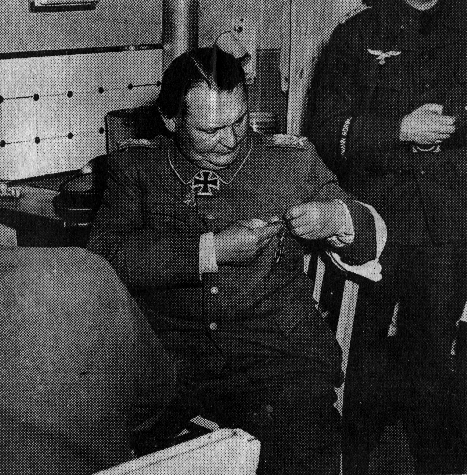 Hermann Göring as a prisoner in 1945. The many badges of honor are removed.